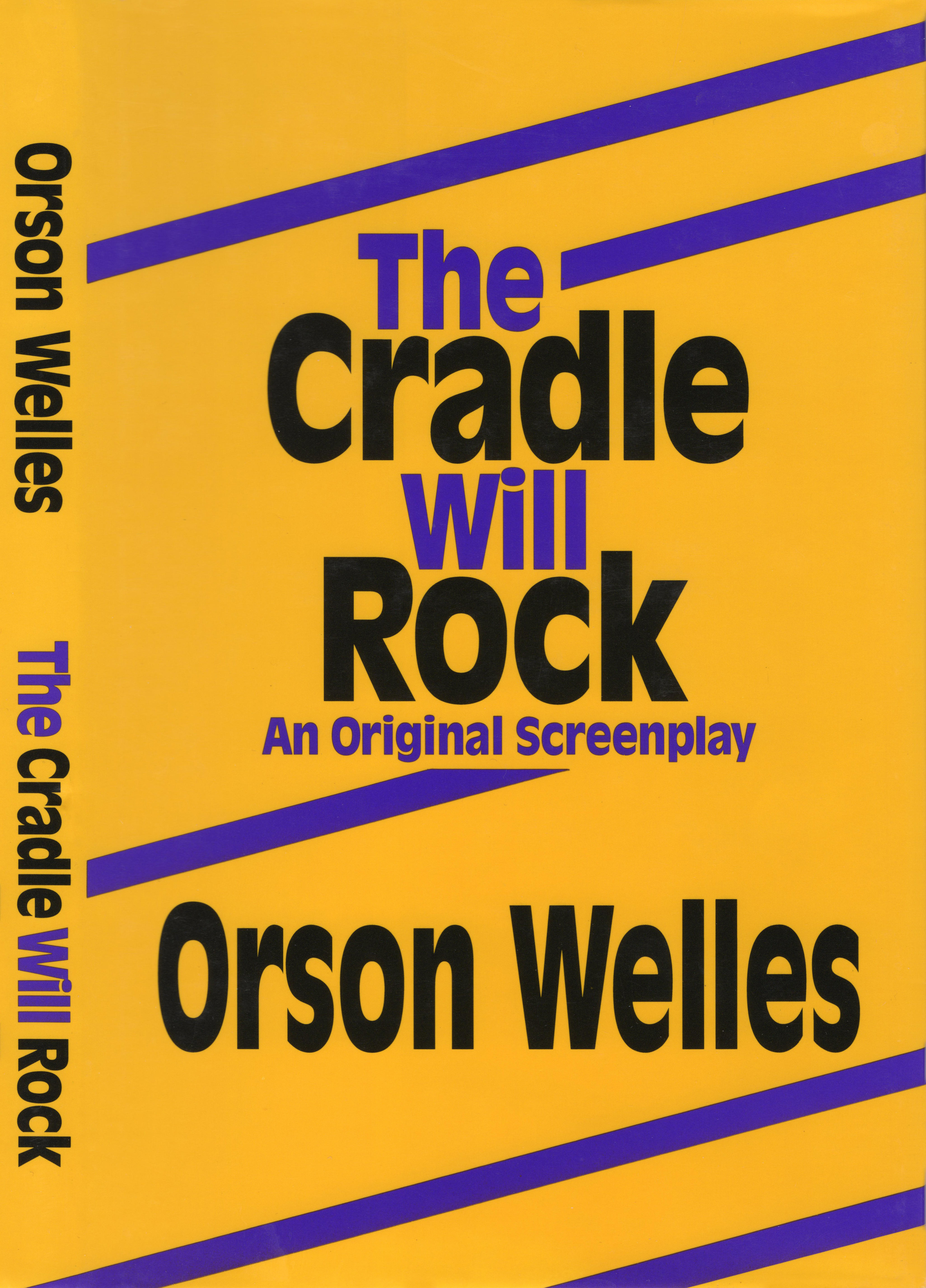 Front cover and spine of the dust jacket for the first-edition book printing of The Cradle Will Rock: An Original Screenplay. Written by Orson Welles in 1984, the screenplay for the autobiographical drama film has not been produced. ISBN 0-944166-06-7